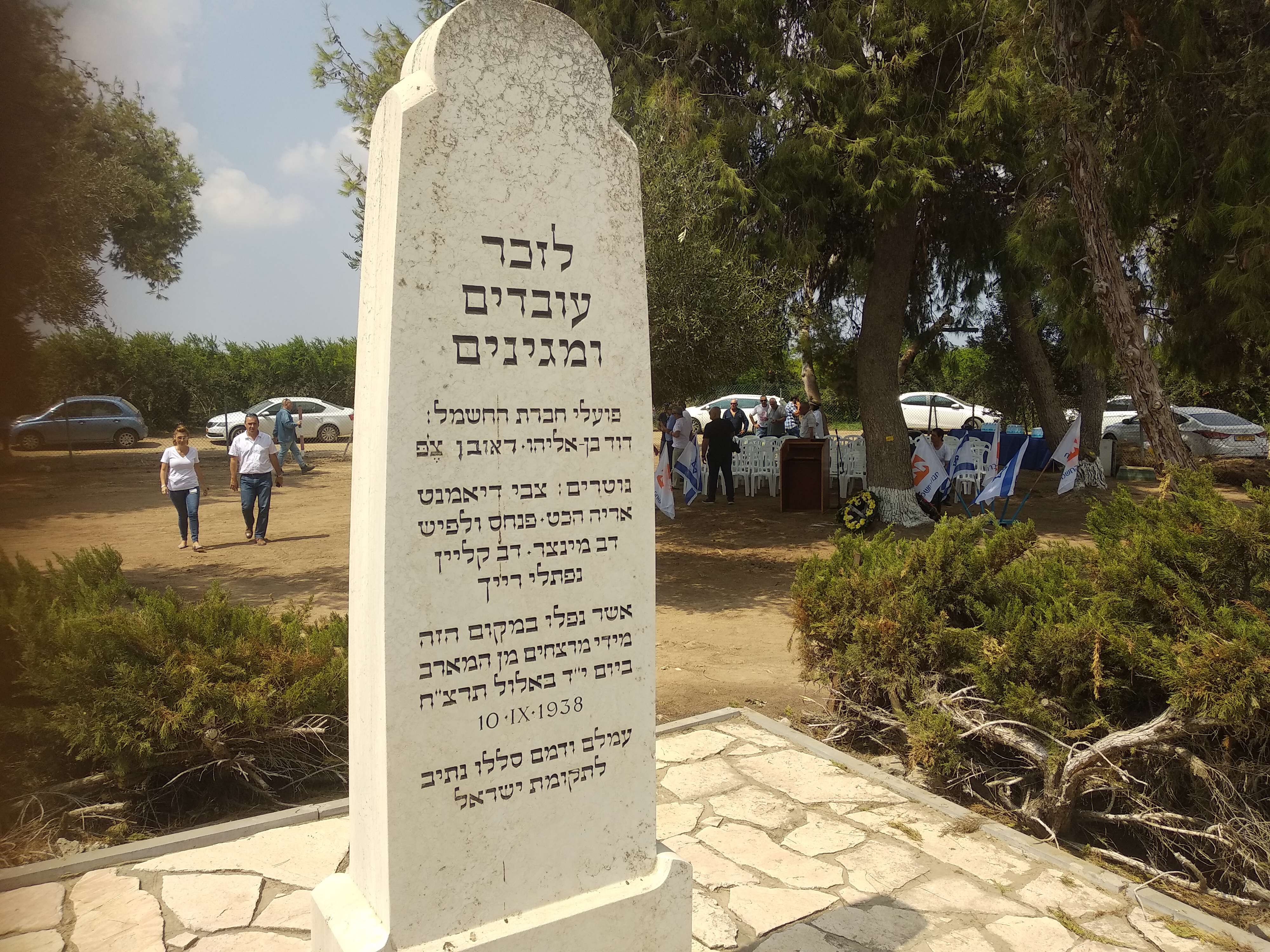 Monument In memorial of 2 electricity workers and 6 jewish policemen killed in Masmiyya Battle in September 1938